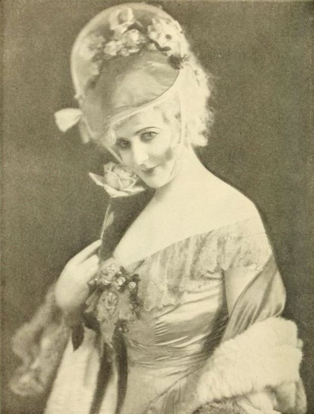 Actor and female impersonator Julian Eltinge on page 20 of the June 1921 Photoplay magazine.